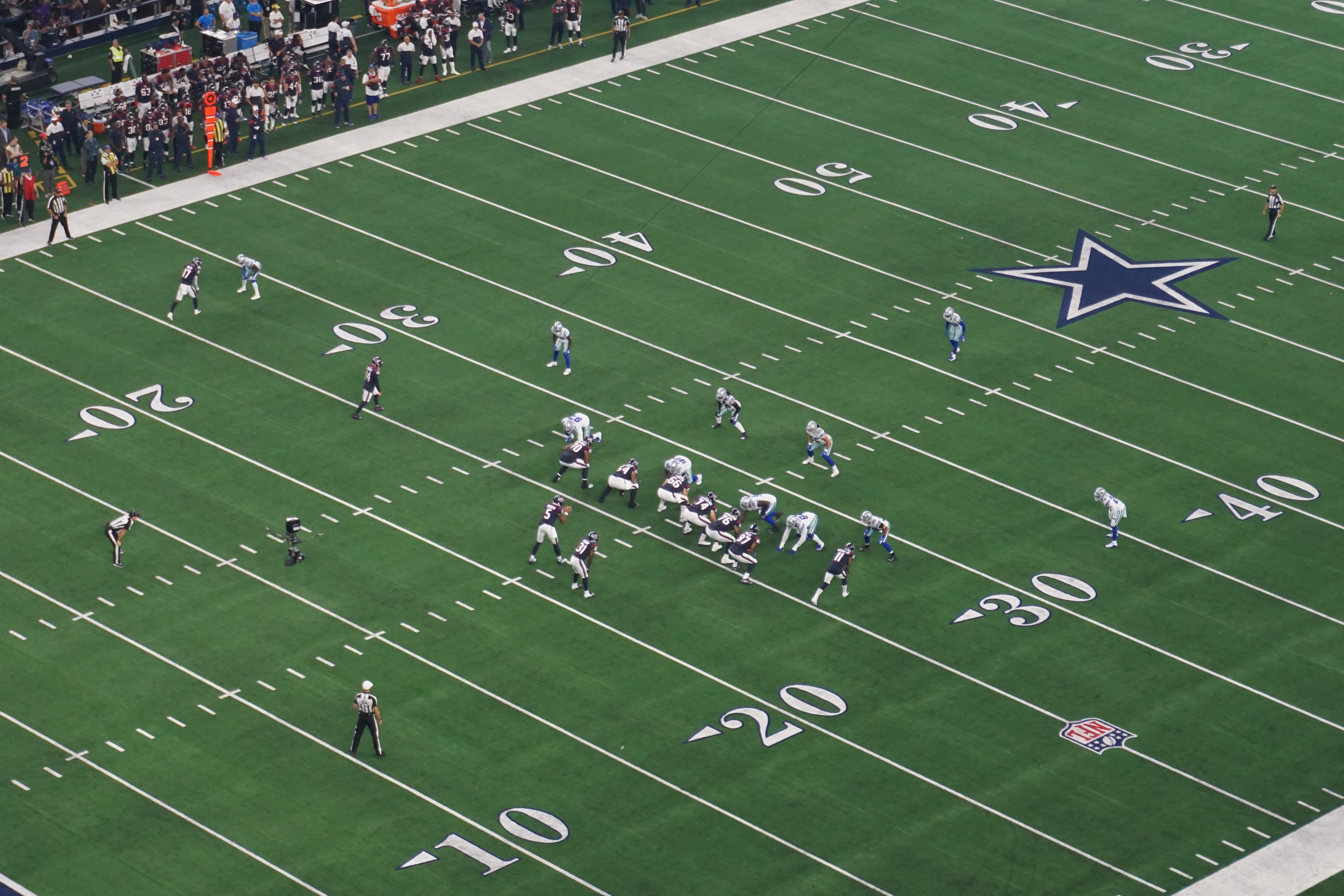 Houston on offense during the Houston Texans vs. Dallas Cowboys preseason game at AT&T Stadium in Arlington, Texas (United States). Dallas won 34–0.